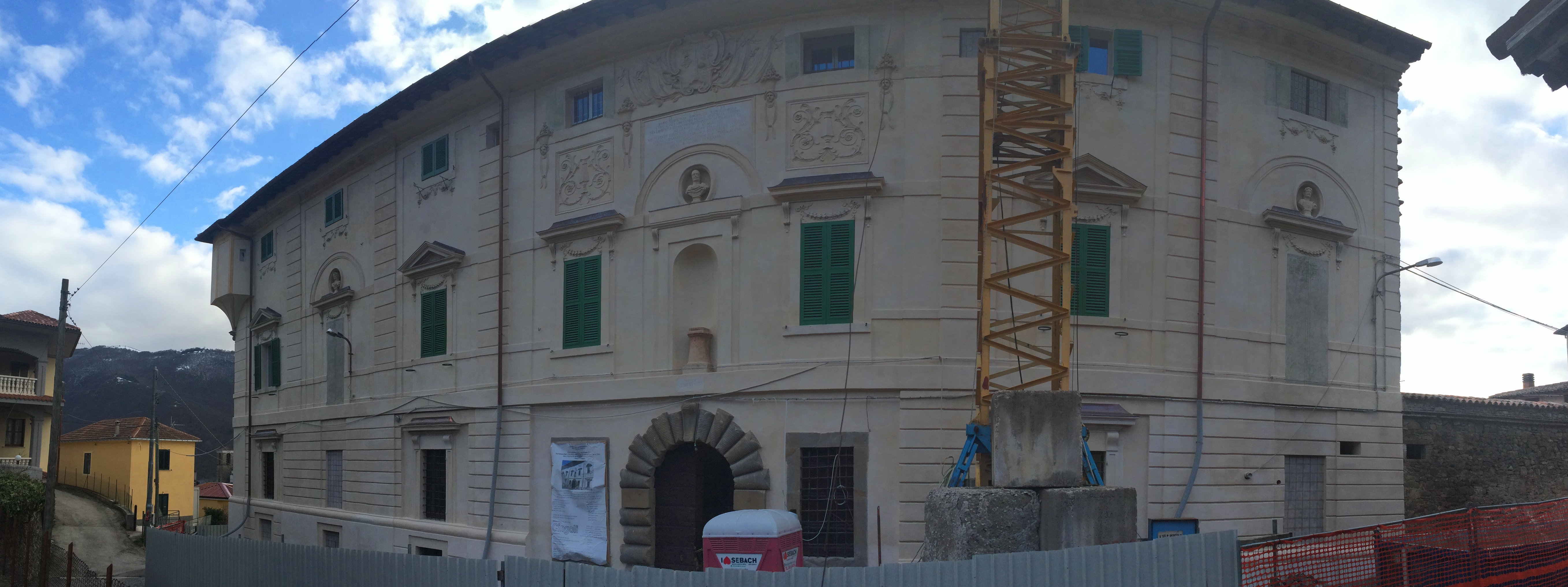 Palazzo Ricci in Mopolino (Capitignano).